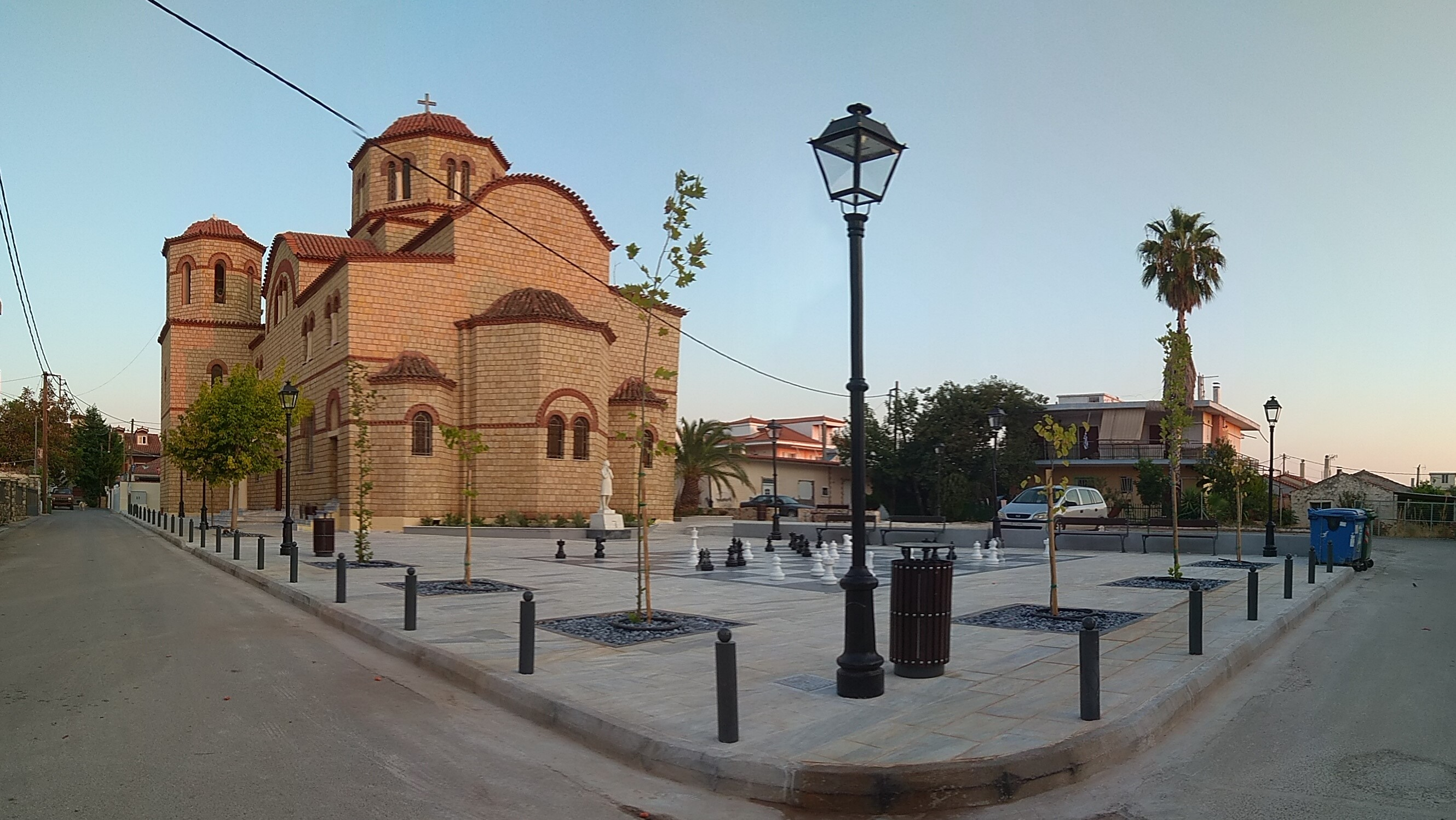 Heroes Square at Agios Thomas Tanagras after renovation at 2019